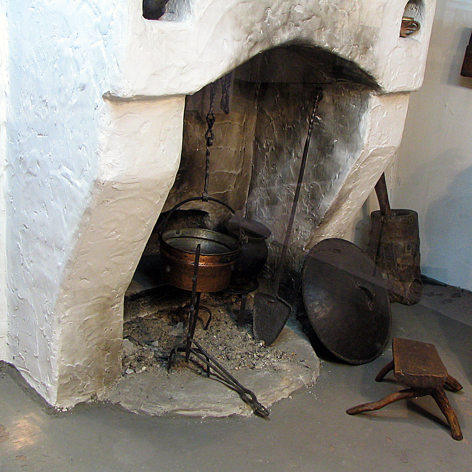 Fireplace, Ethnographic Museum, Belgrade